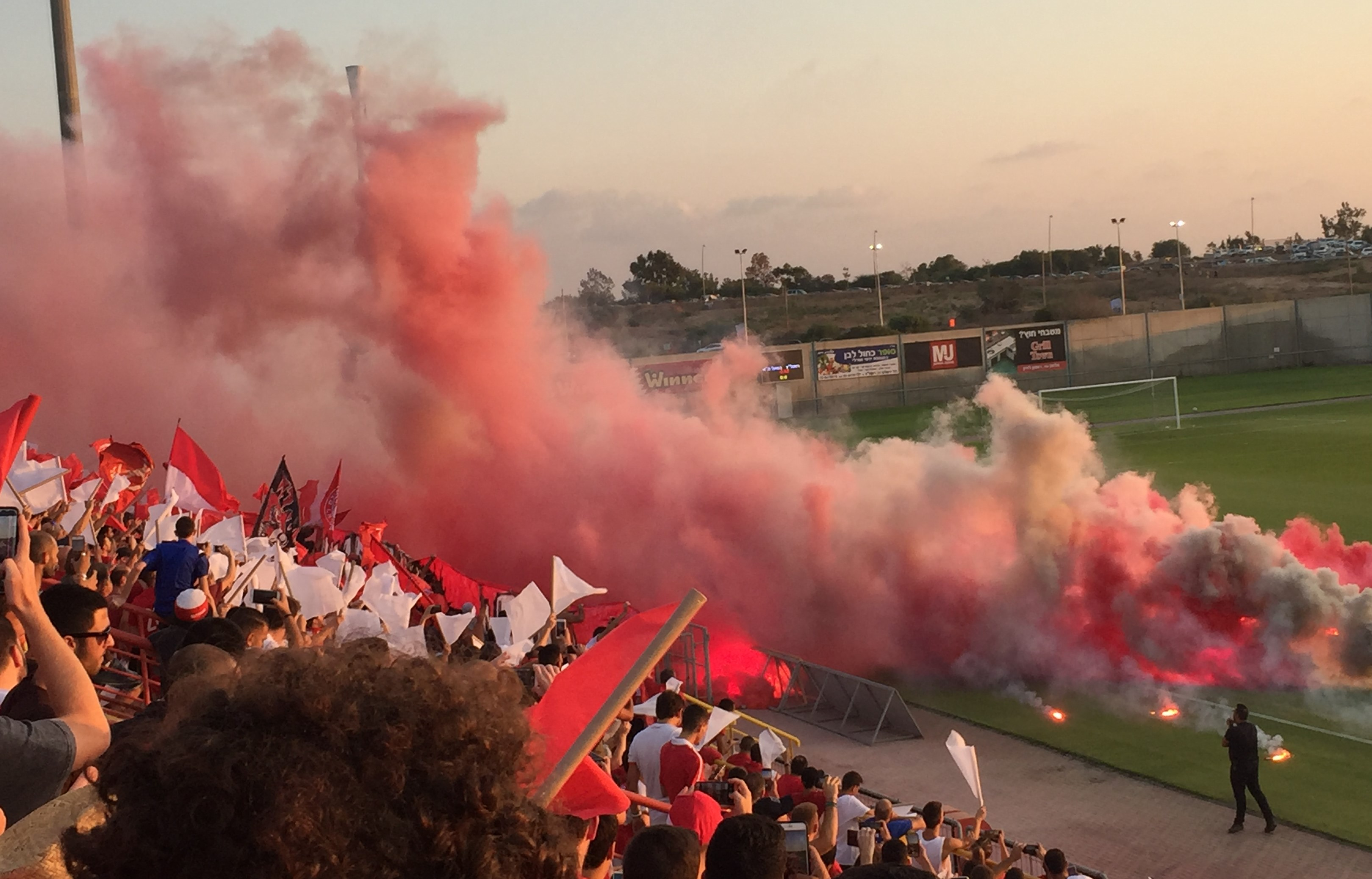 Hapoel Tel Aviv FC fans in Haberfeld Stadium, Rishon LeZion, August 2017